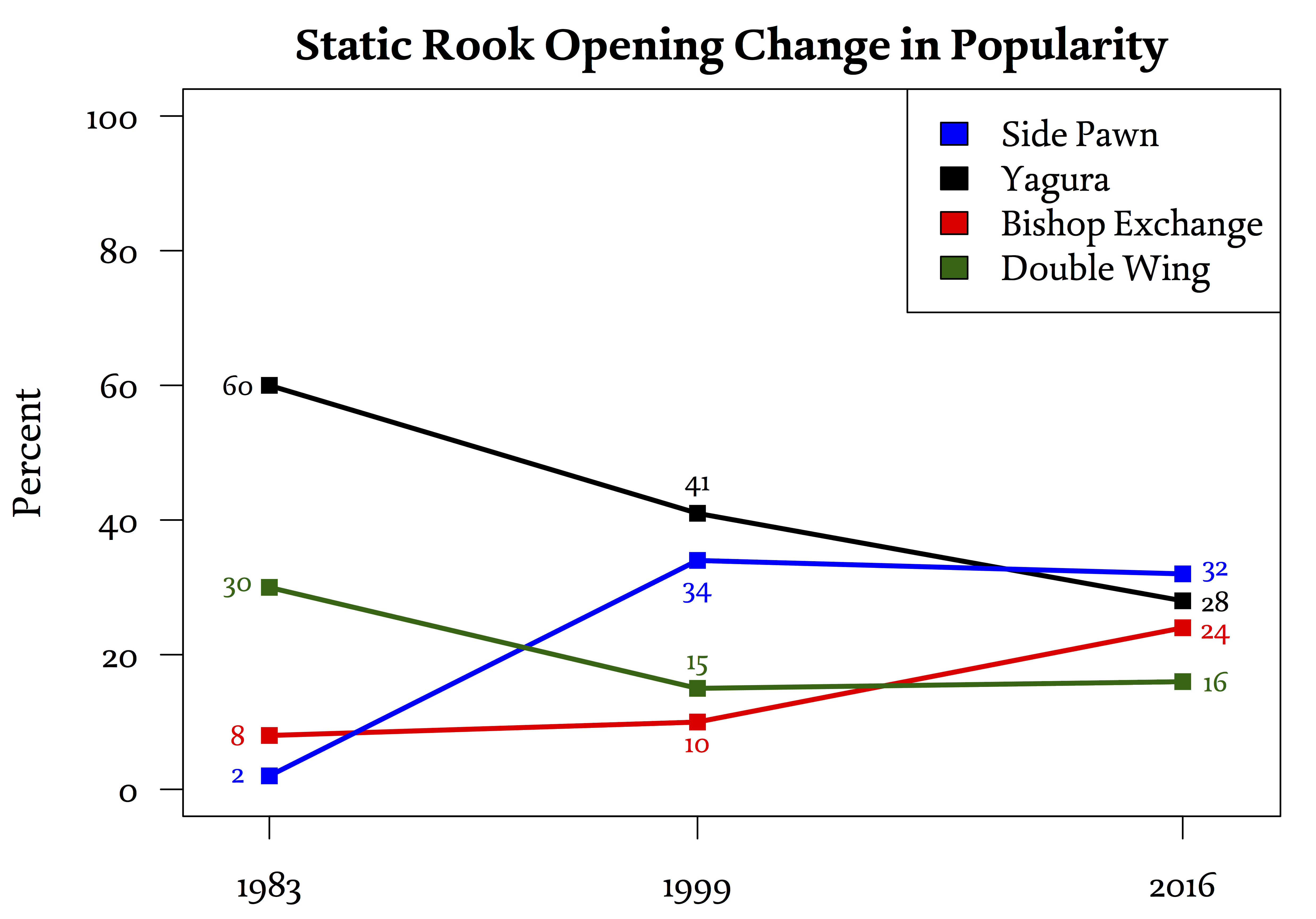 Changes in popularity of the major 振り飛車 Ranging Rook openings over time at three year points.